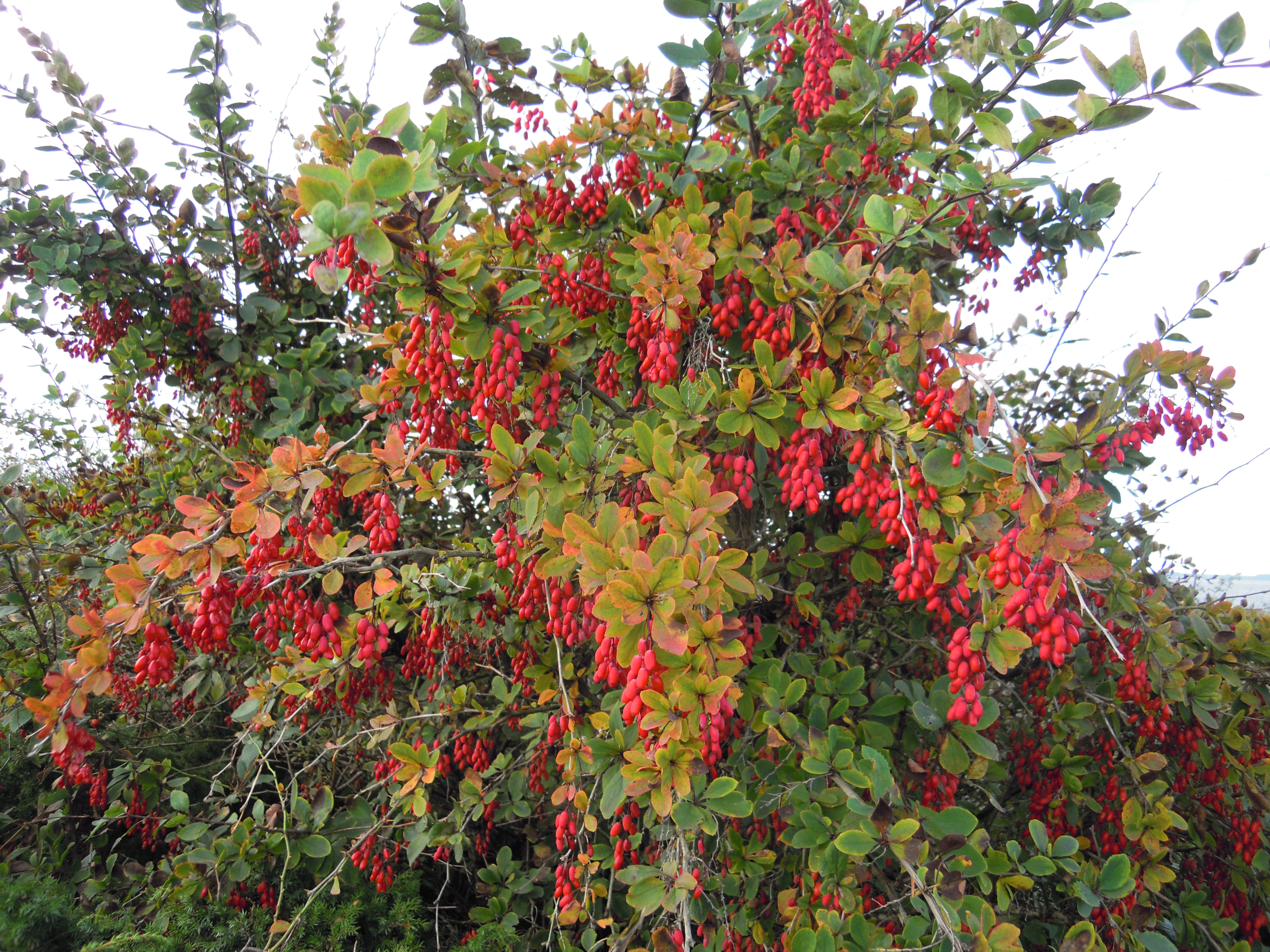 Berberis vulgaris (European barberry)/( Jaundice berry)/( Ambarbaris)/(Barberry) is a shrub in the family Berberidaceae, native to central and southern Europe, northwest Africa and western Asia; it is also naturalised in northern Europe, including the British Isles and Scandinavia, and North America. Mølen, Larvik, Norway. You are free to use this picture outside Wikipedia (see license), as long as you write: Photo: Arnstein Rønning